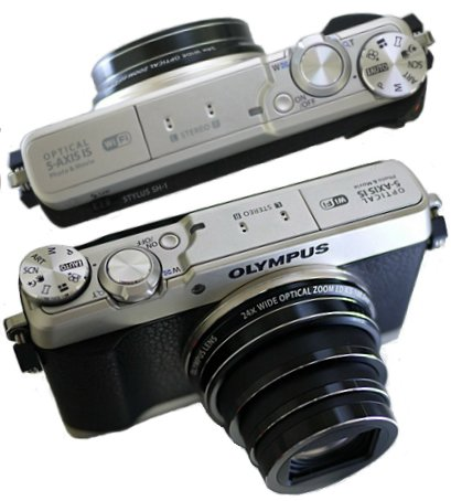 Olympus SH-1 silver - with retracted and extended zoom lens.